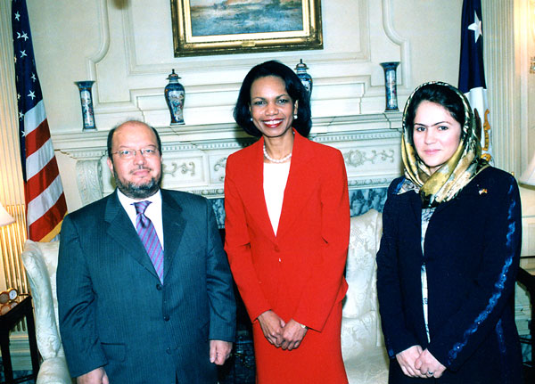 On February 3, 2006 Secretary Rice met with two members of the Afghan Parliament. Mr. Sayed Hamed Gailani, Upper House Deputy Speaker, and Ms. Fawzia Koofi, Lower House Deputy Speaker, were in Washington DC to attend the State of the Union address on January 31. State Department Photo.